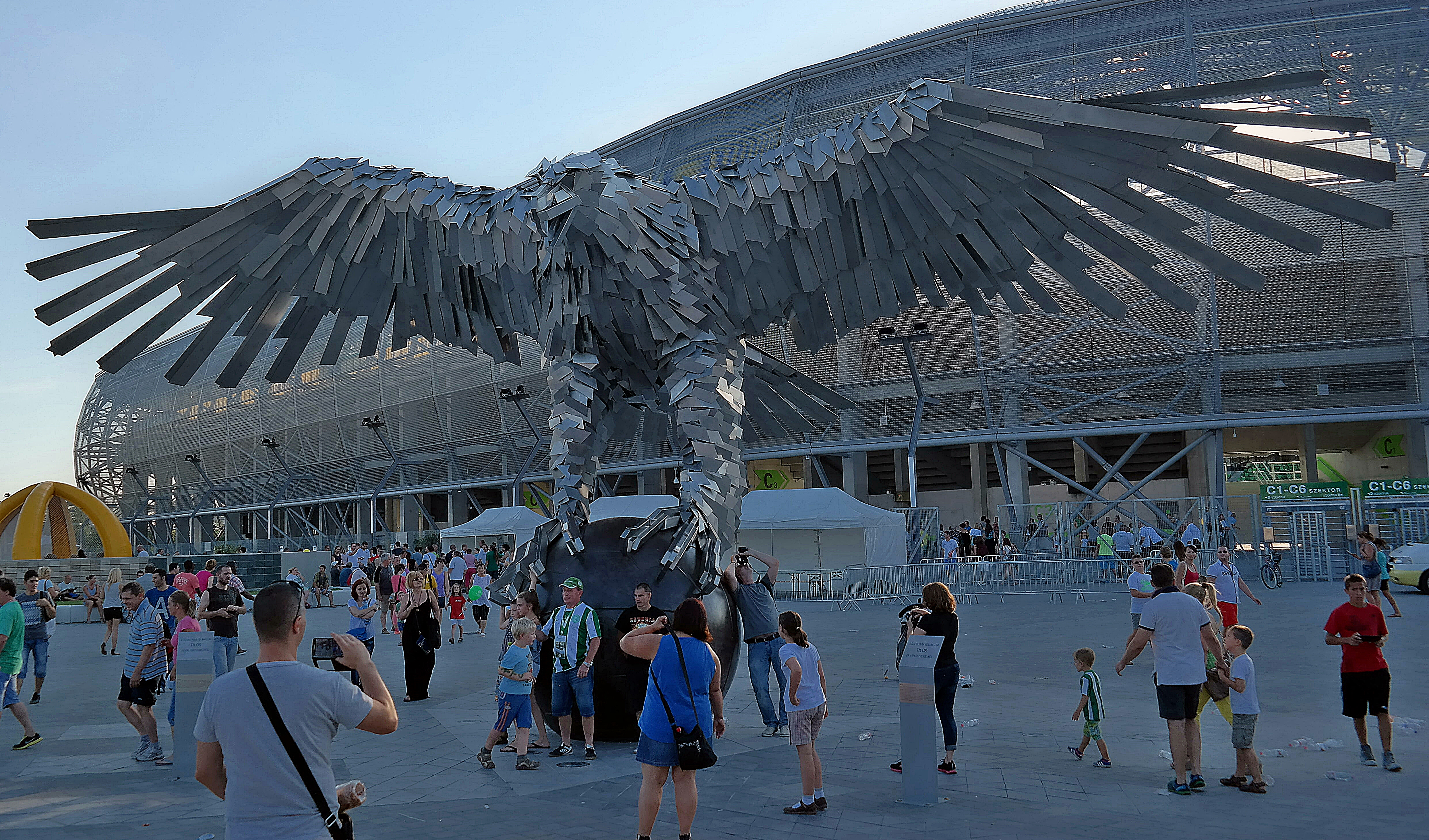 Eagle sculpture (symbol of the Ferencvárosi Torna Club). Creator: Gábor Miklós Szőke.